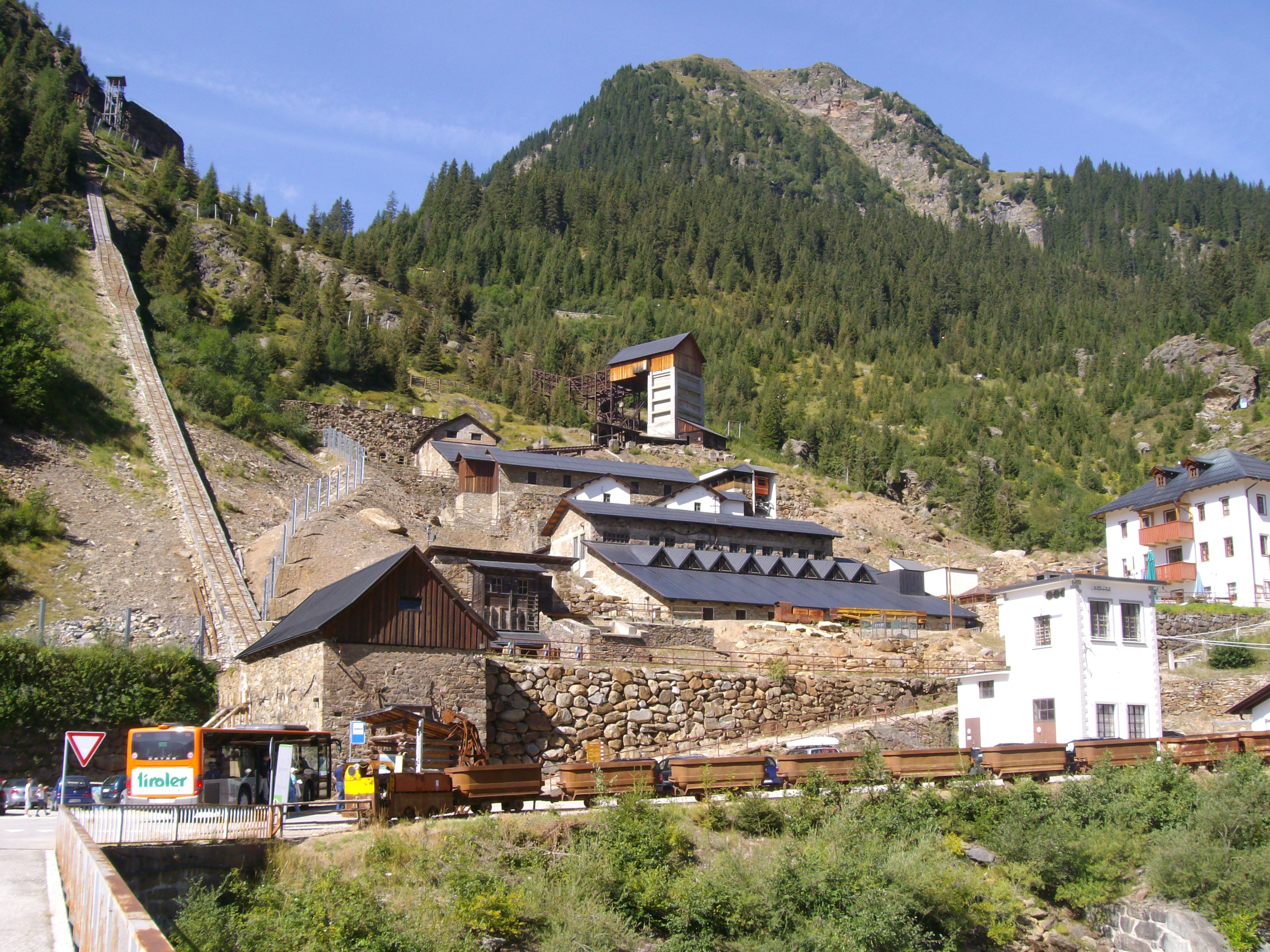 Italy, South Tyrol, Ridnauntal. The Schneeberg mine provincial Museum